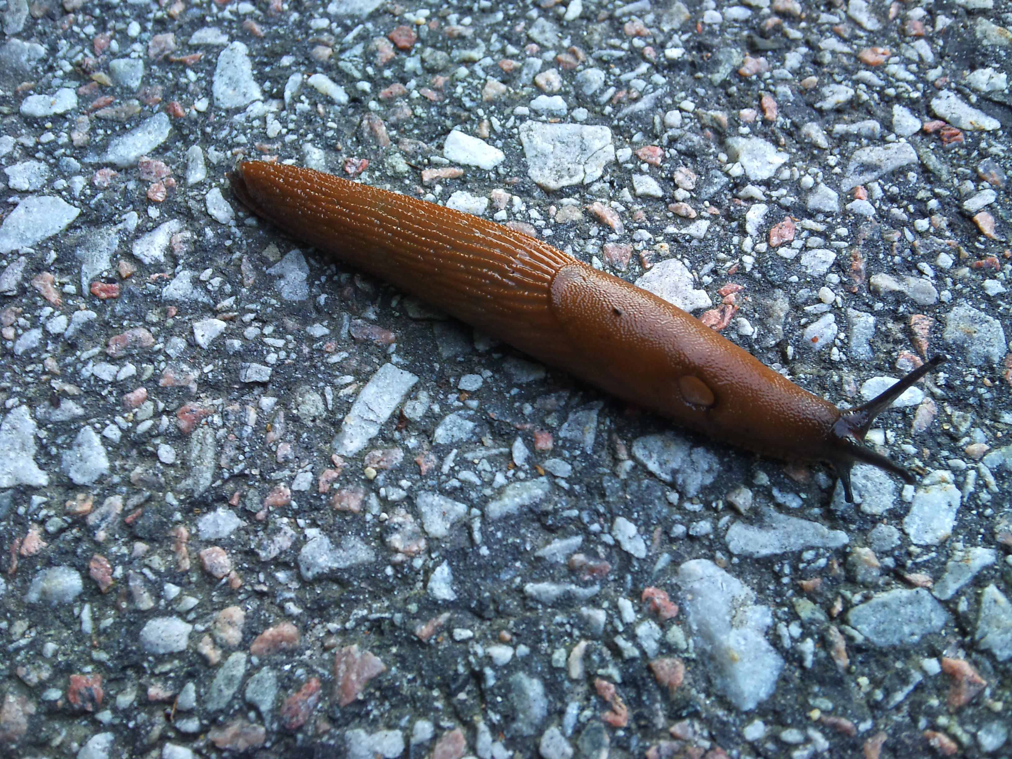 A Spanish slug (Arion vulgaris), [ˈʌːrɪɒn vʊlˈgʌːrɪs]) on a stony asphalt road for pedestrians and smaller vehicles called Ögonfröjdsstigen in the city of Malmo. The hole on its frontal body isn't a damage, but merely a certain biological thing. Photographed 18 July, 2011.